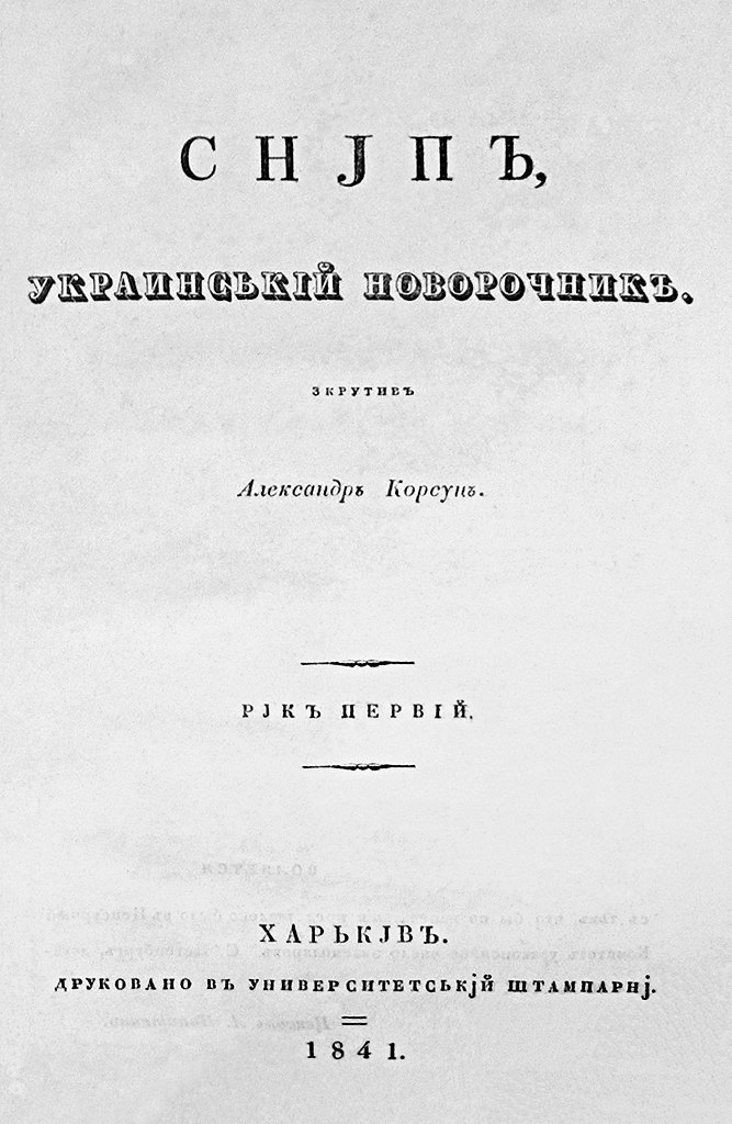 Almanac "Snip", 1841. Cover Sheet.